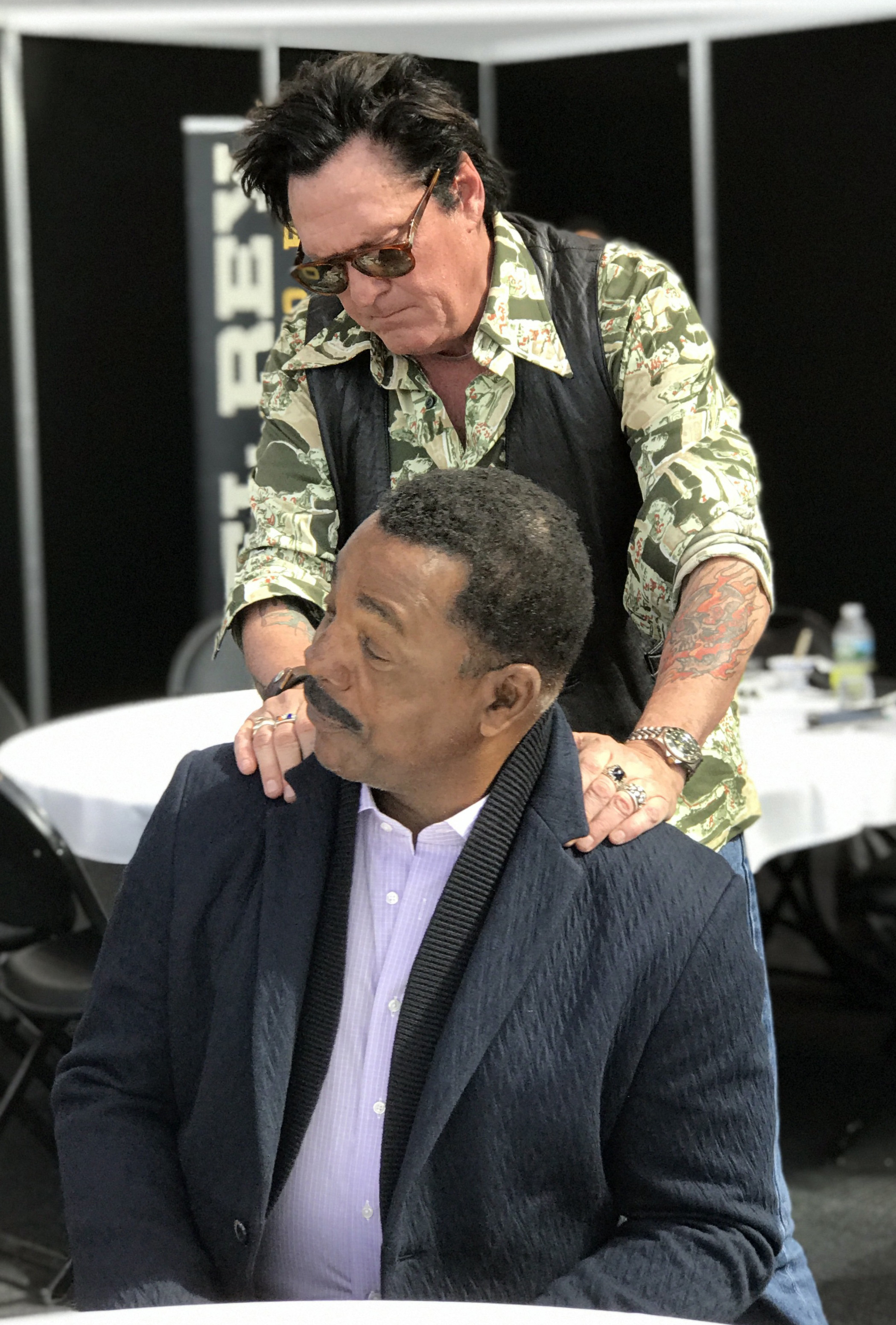 Actor Michael Madsen horses around with his co-star, Carl Weathers, while the two promote their animated TV series, Explosion Jones, in the Explosion Jones press room in the Fourth Floor Galleria of the Jacob K. Javits Convention Center in Manhattan, on Thursday, October 5, 2017, Day 1 of the 2017 New York Comic Con. This photo was created by Luigi Novi. It is not in the public domain, and use of this file outside of the licensing terms is a copyright violation.